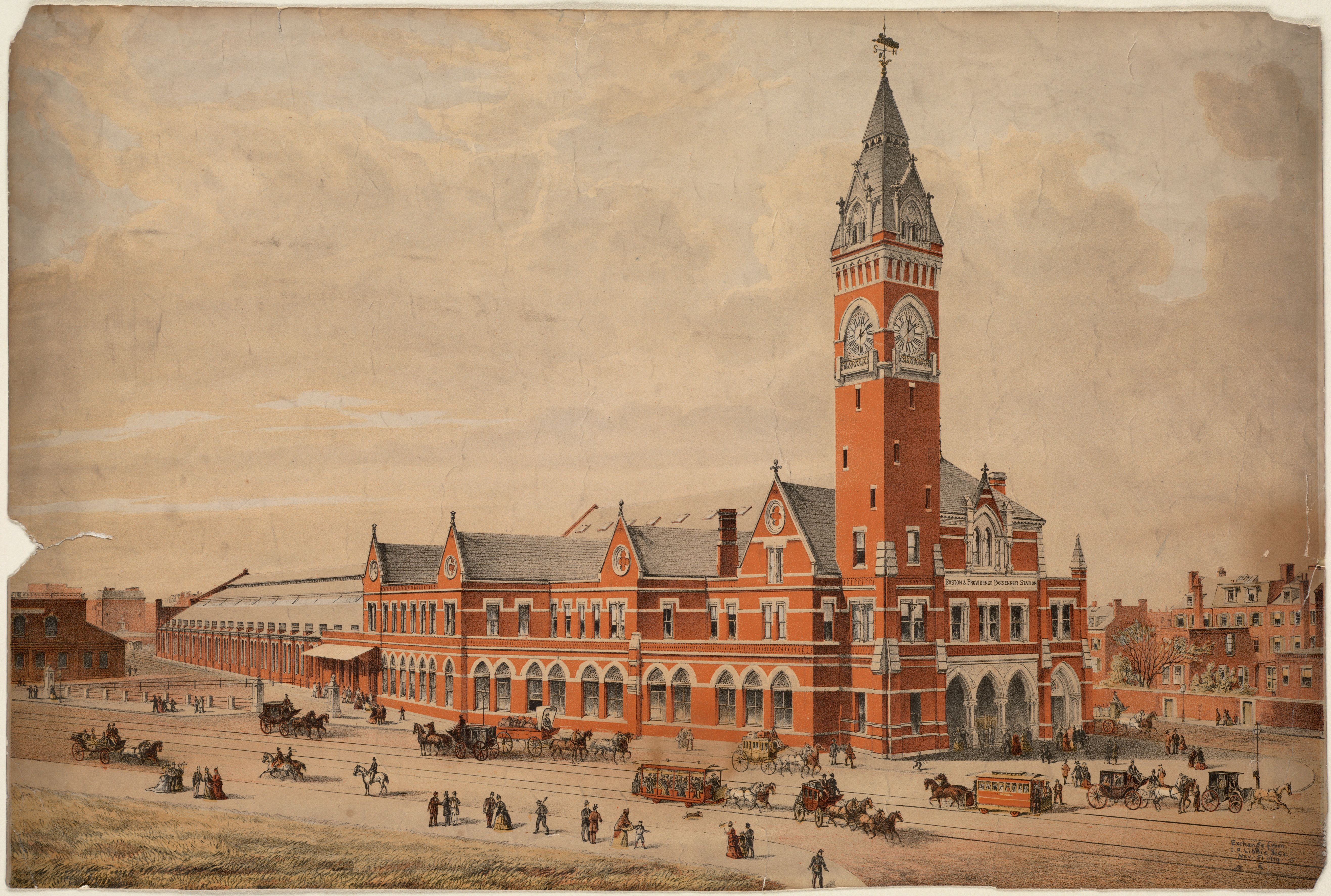 An early chromolithographic print of the Boston and Providence Railroad terminal in Boston